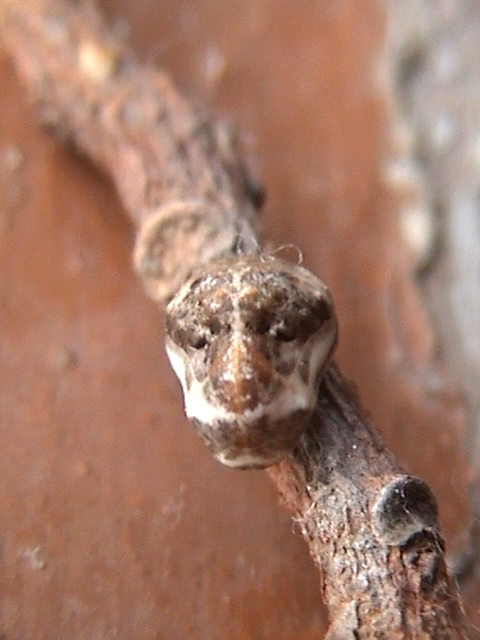 Apefly(Spalgis epius) pupa. Ape face view